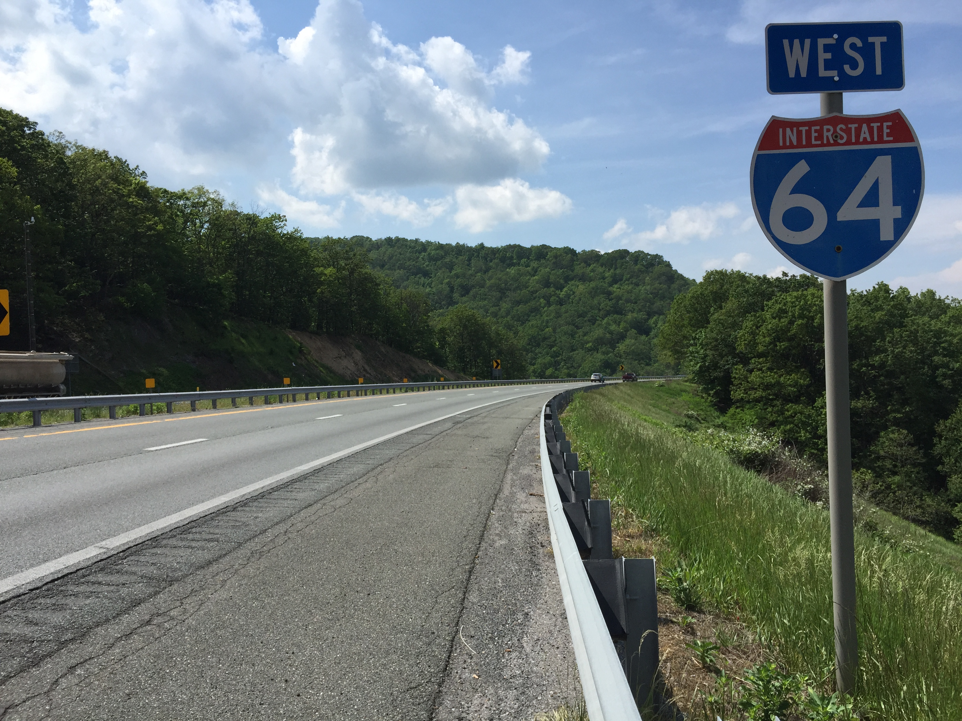 View west along Interstate 64 just west of Rockfish Gap in Augusta County, Virginia